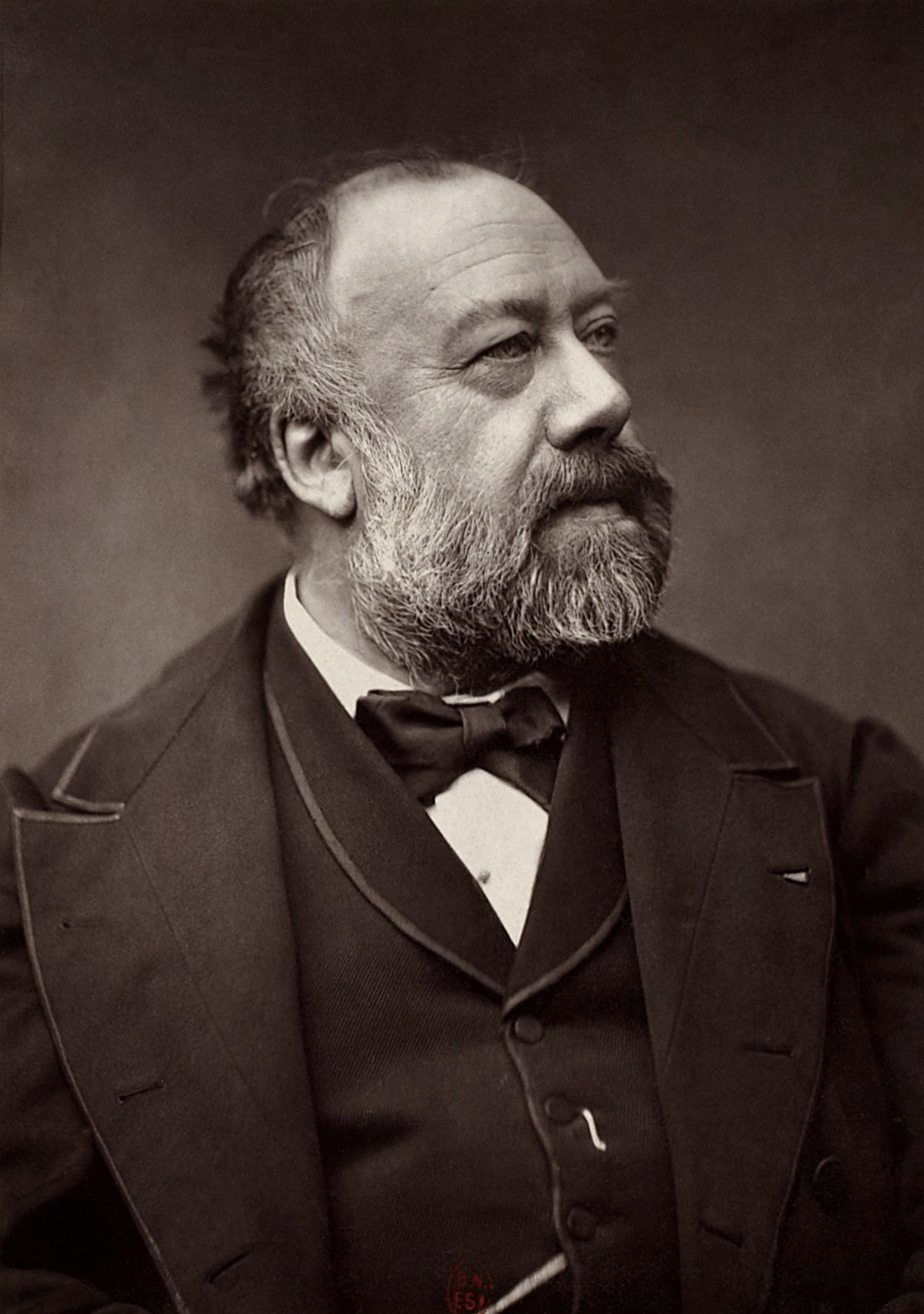 Gustave Nadaud (1820-1893), french poet and songwriter.